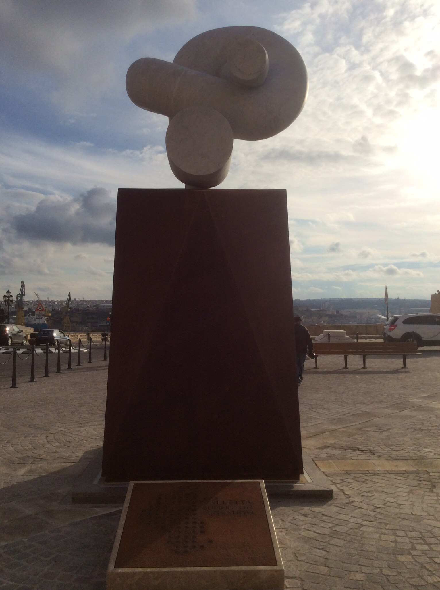 The Knot Valletta Monument